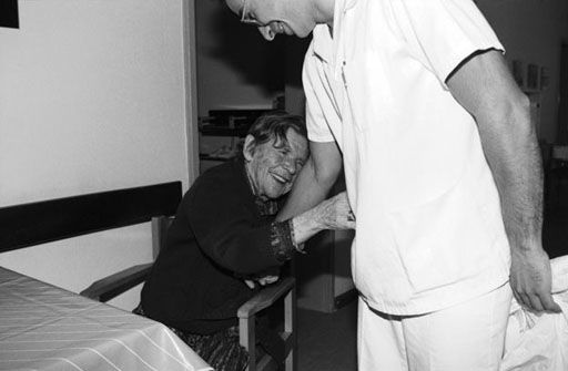 Resident of a nursing home in Munich (Germany)